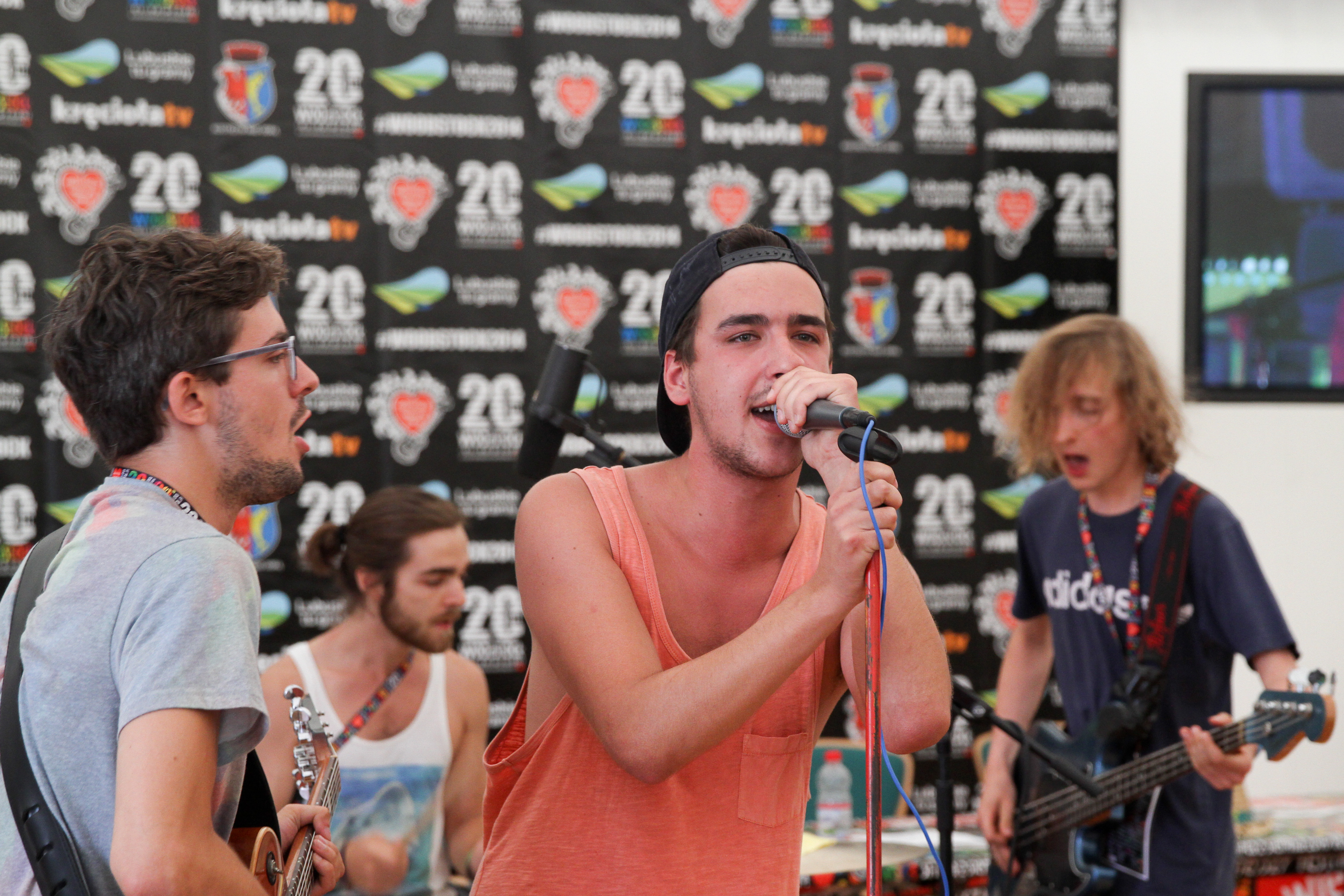 Clock Machine at Przystanek Woodstock 2014.